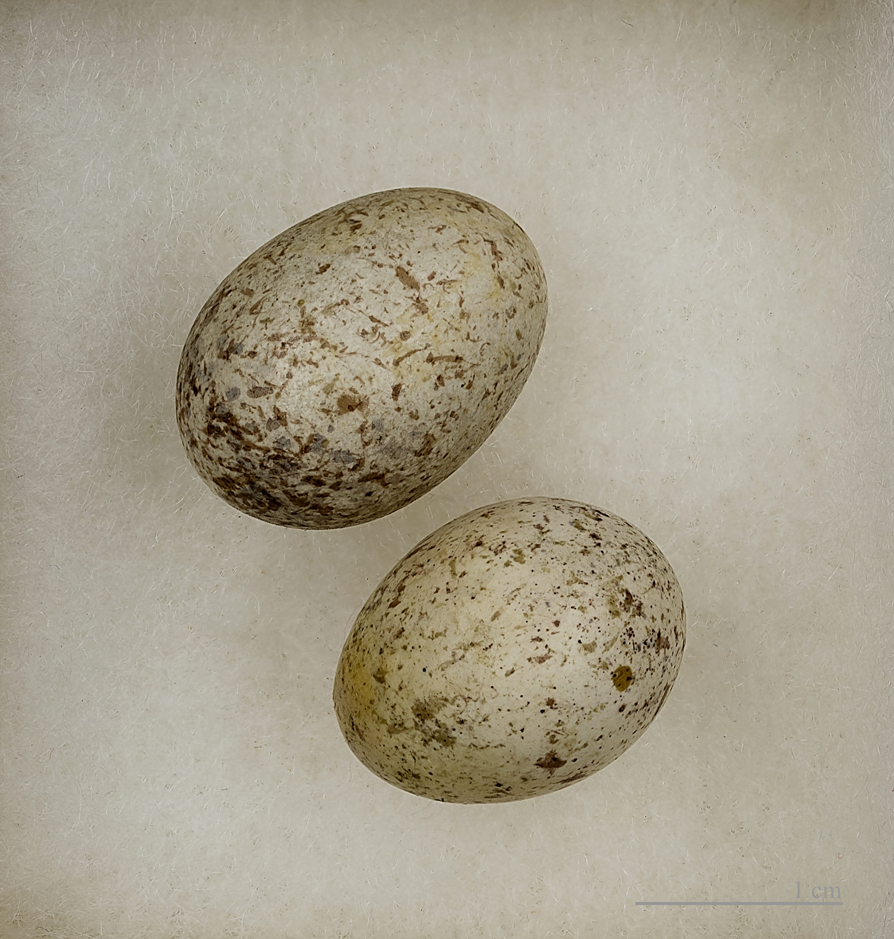 Egg of Pale Crag Martin. Collection of Jacques Perrin de Brichambaut